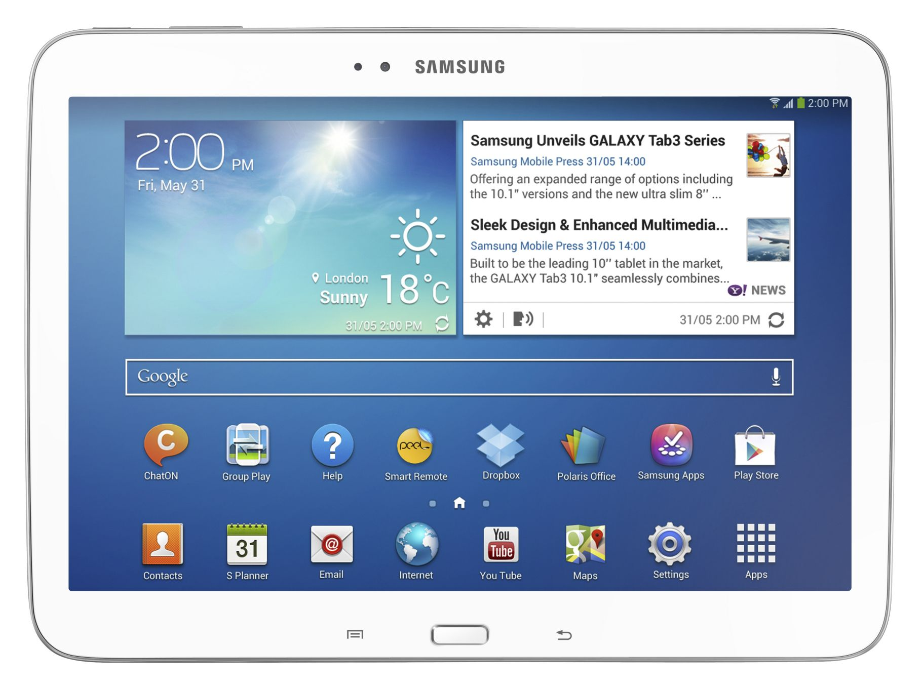 See more: Back to School Computer Buying Tips Choose the right 2 in 1, tablet, Ultrabook, laptop, desktop all-in-one, laptop, or smarphone to gear up your child for the school year. With summertime winding down, it's time for parents and kids to gear up for the school year and that means selecting the right technology. With so many different types of devices being advertised today -- from desktop PCs, laptops and Ultrabooks, 2 in 1s, phones to tablets -- finding the right product at the right price is more challenging than ever. School-bound students may know already what computer or smartphone they want, but these tips will help parents guide their child to make the right choice that fit their needs.